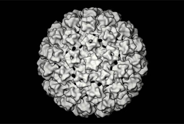 Novel structural features of bovine papillomavirus capsid revealed by a three-dimensional reconstruction to 9 A resolution. Nature Structural Biology 4(5):413-20.